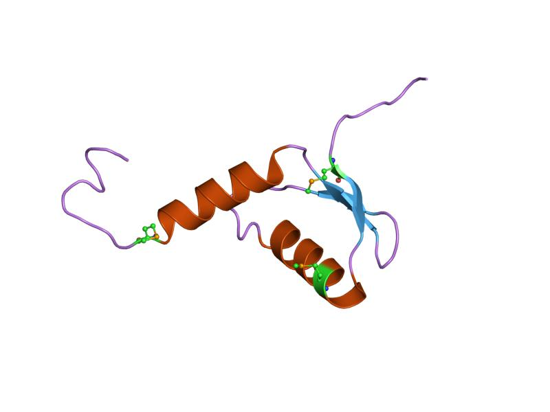 Cartoon representation of the molecular structure of protein registered with 1ydl code.